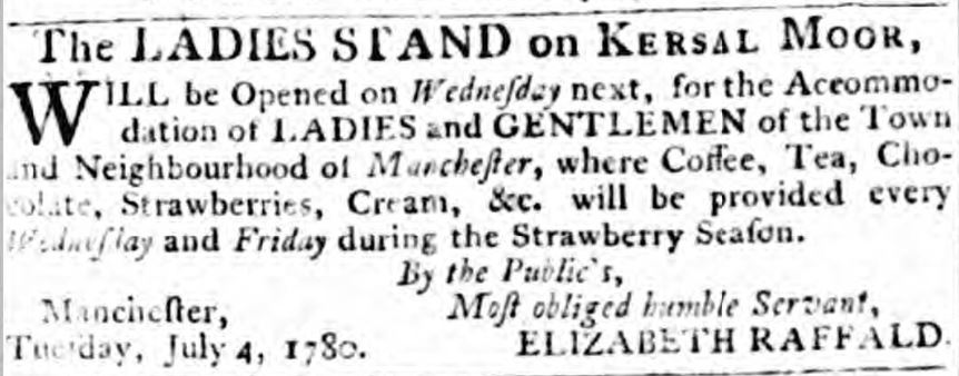 Advert for Elizabeth Raffald, Manchester Mercury, 1780